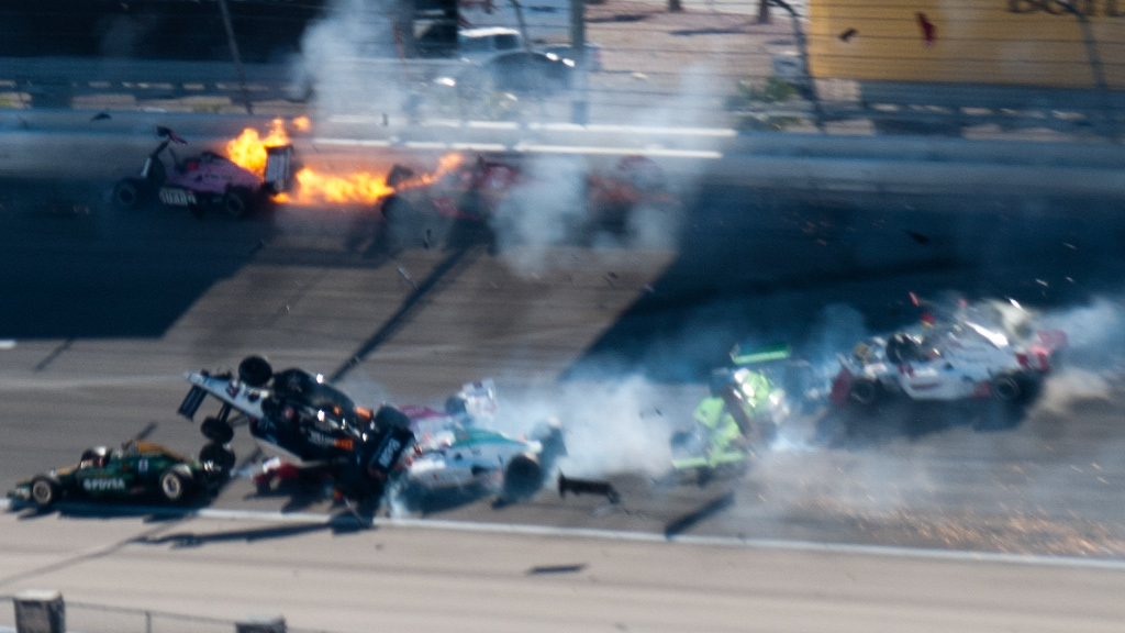 cropped version File:IndyCar Las Vegas 2011 big crash.jpg